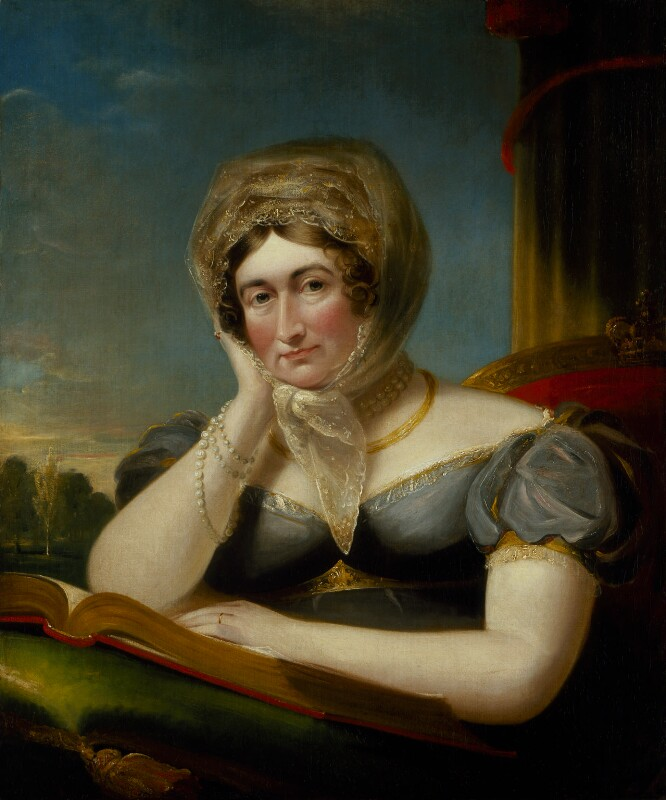 Caroline of Brunswick (1768-1821)